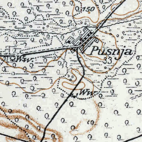 Puznia on the map "Karte des Westlichen Russlands", T 35, 1917. According to Digital Repository of Scientific Institutes and Kujawsko-Pomorska Digital Library the map is in the public domain.